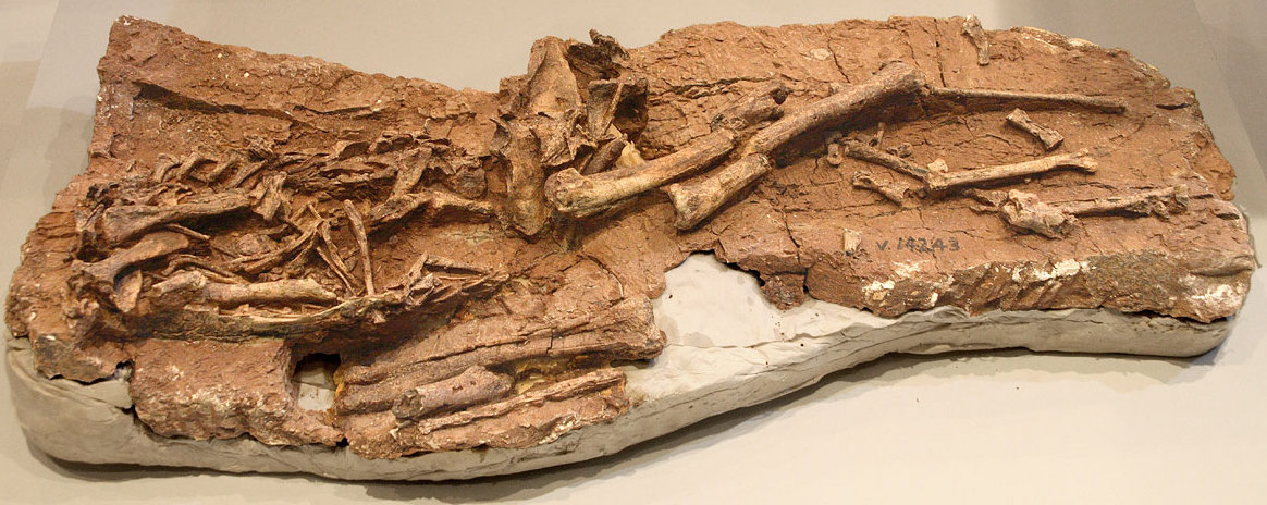 Type specimen of Dilong - 01